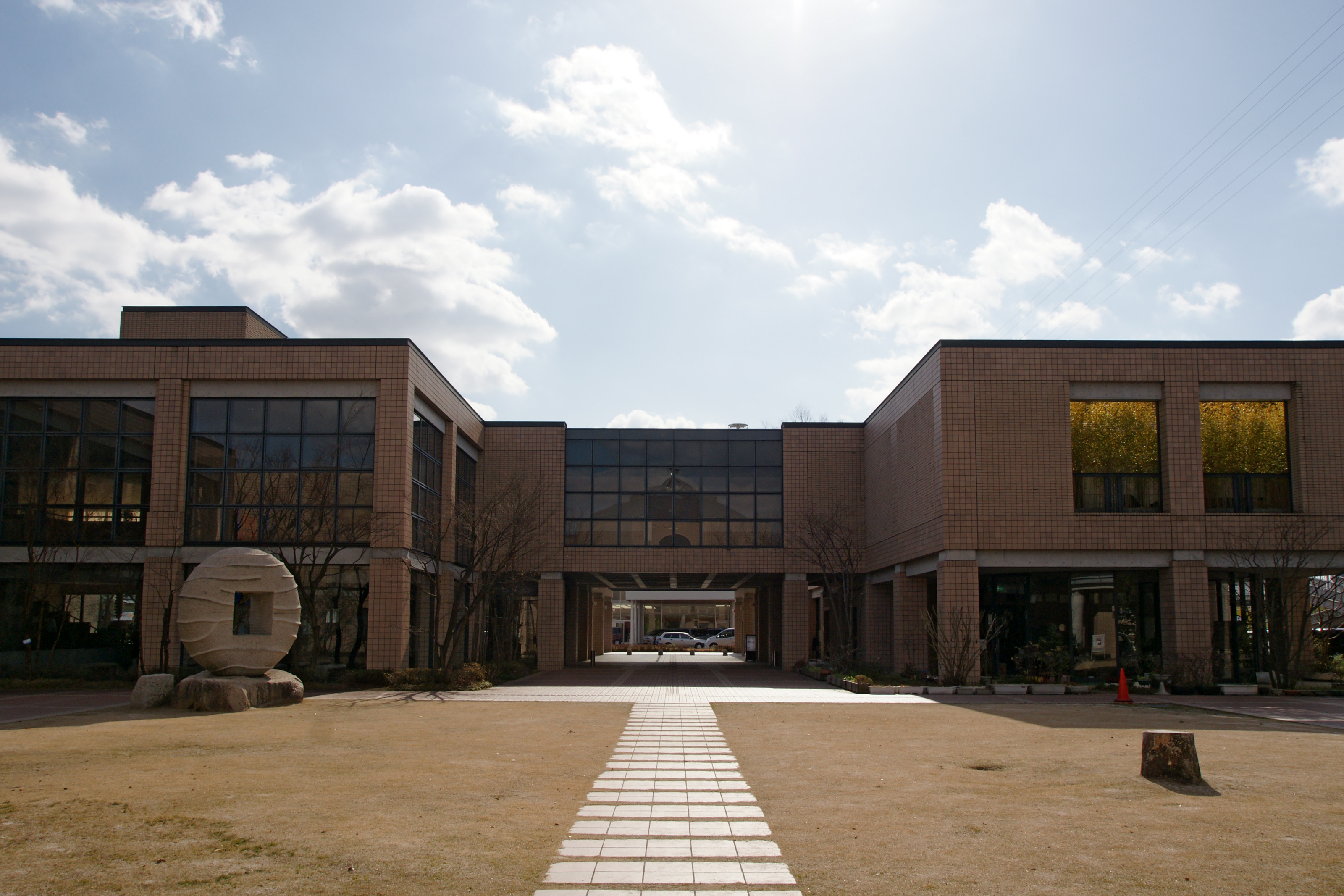 Asuka Hall in Taishi, Hyogo prefecture, Japan